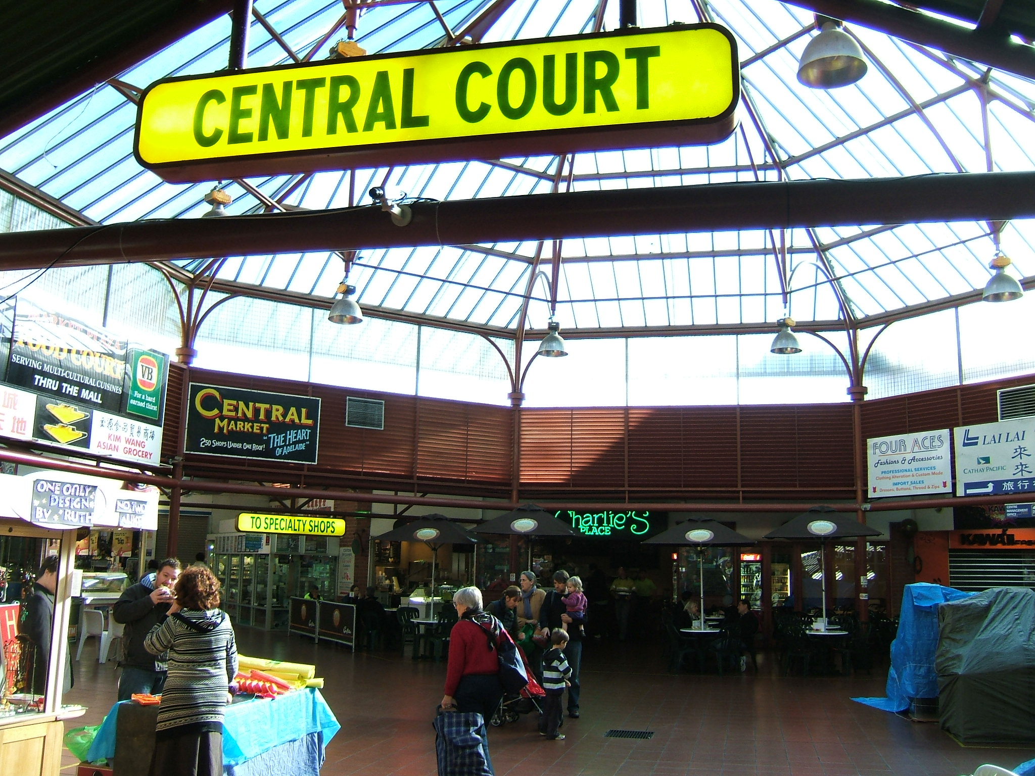 Central Court, Centeral Market, Adelaide